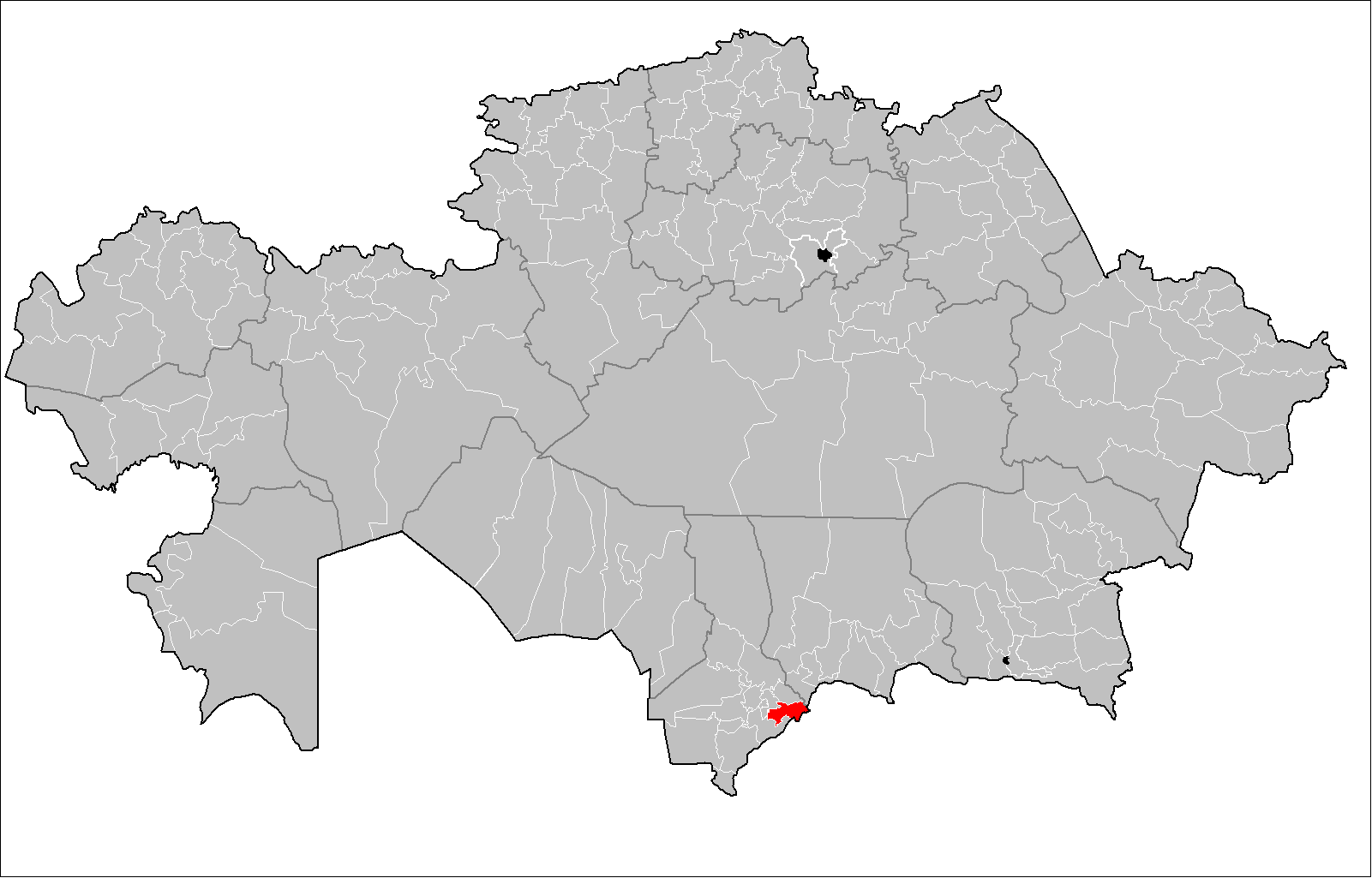 Map of the rayons of Kazakhstan. Created by Rarelibra 16:49, 3 August 2007 (UTC) for public domain use, using MapInfo Professional v8.5 and various mapping resources.